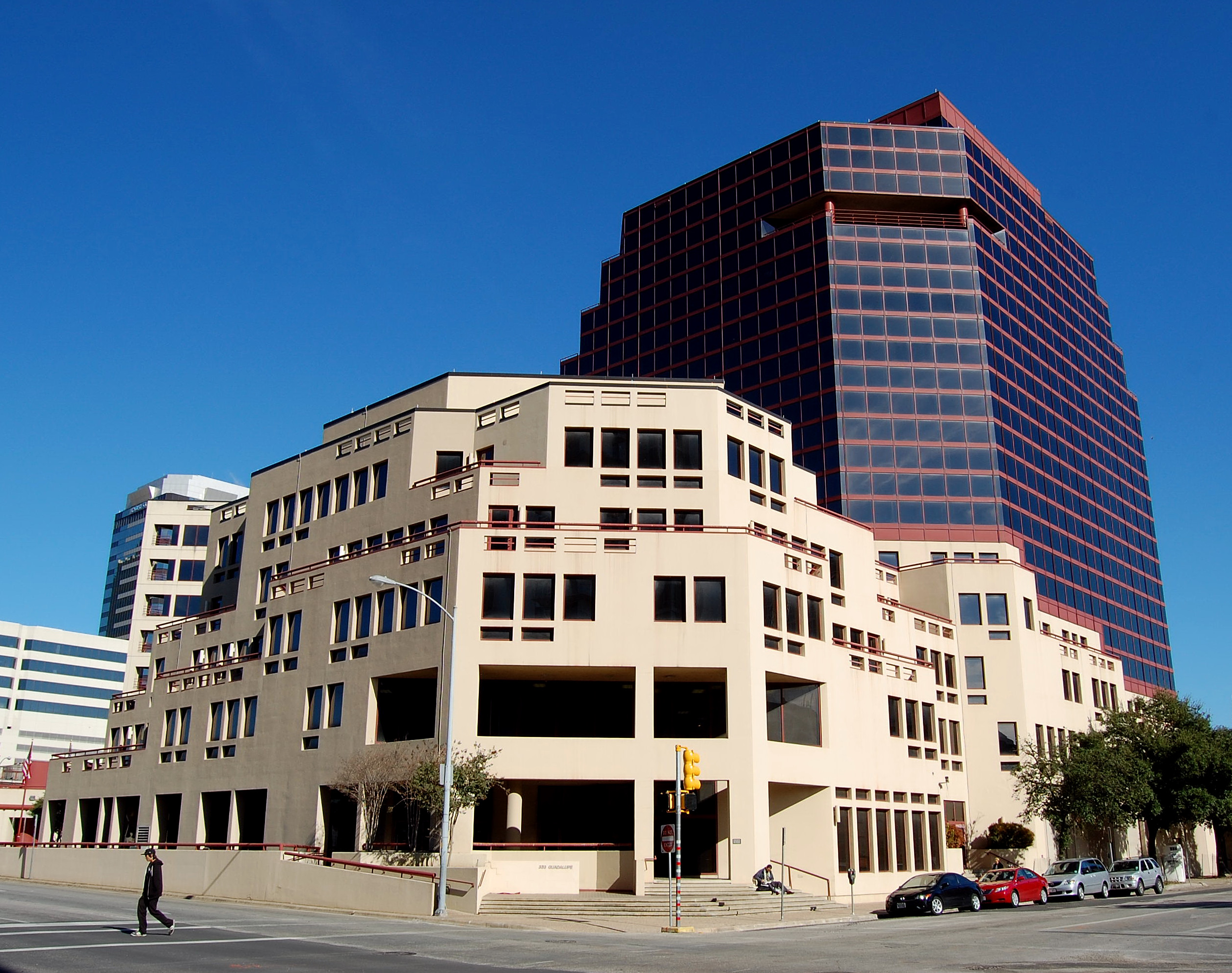 William P. Hobby State Office Building. It includes offices for the Texas Department of Insurance, the Texas Medical Board, and the Texas State Board of Examiners of Psychologists.